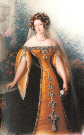 Grand Duchess Anna Pavlovna of Russia (1795-1865), later Queen Consort of the Netherlands, wife of King William II